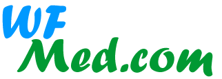 WF-MED logo